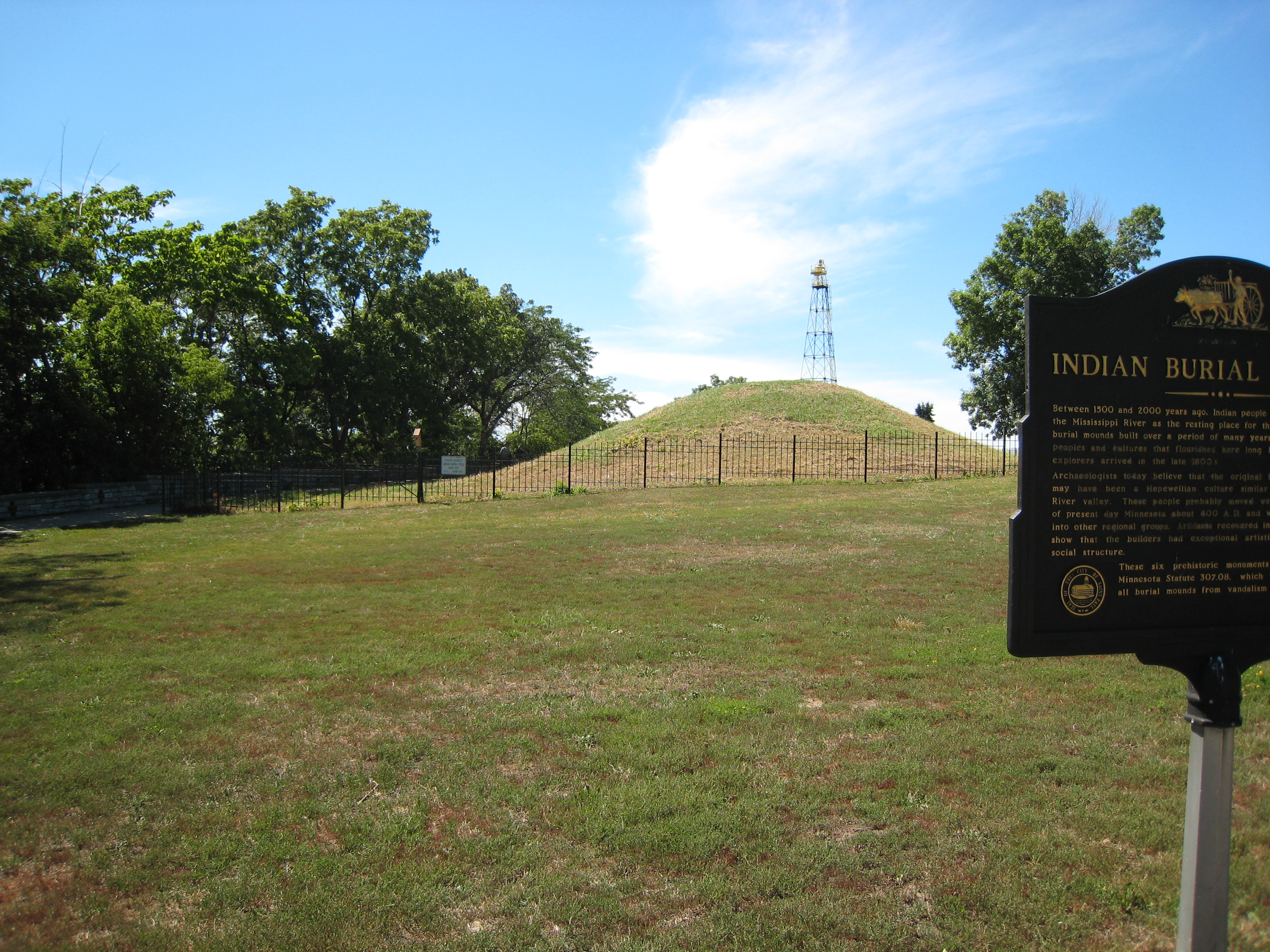 View of one of the mounds taken during my bike ride around town at Indian Burial Mounds Park in St. Paul MN.